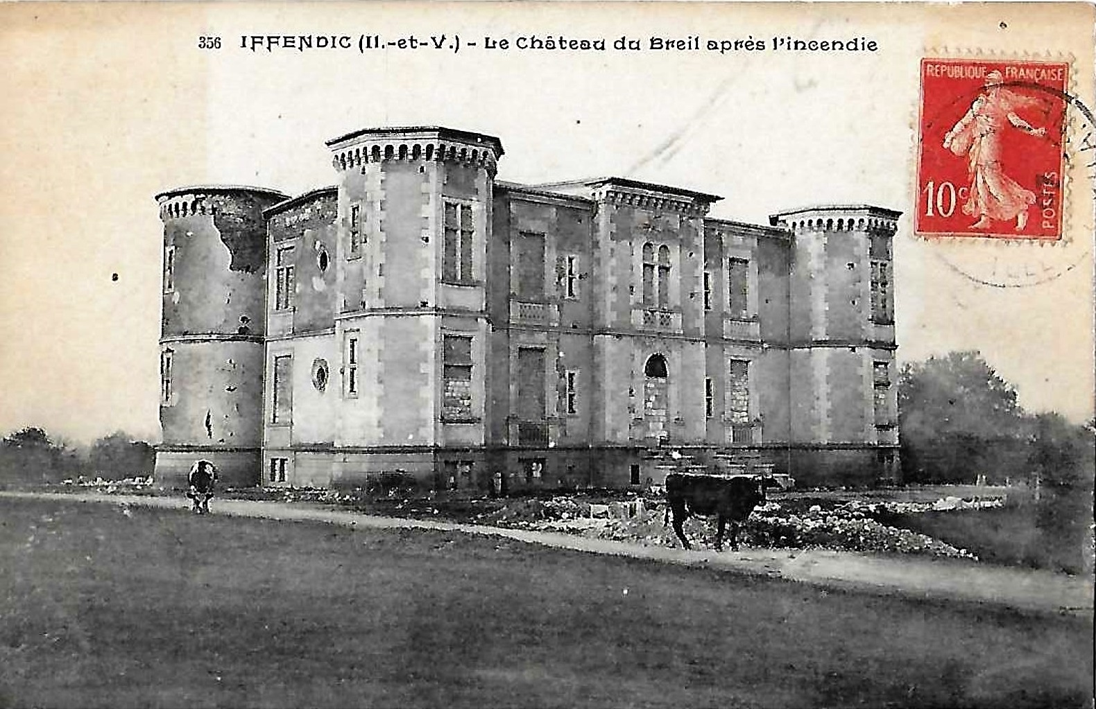 Carte postale, le château du Breuil a Iffendic (35) (apres l'incendie de 1903), vers 1907.